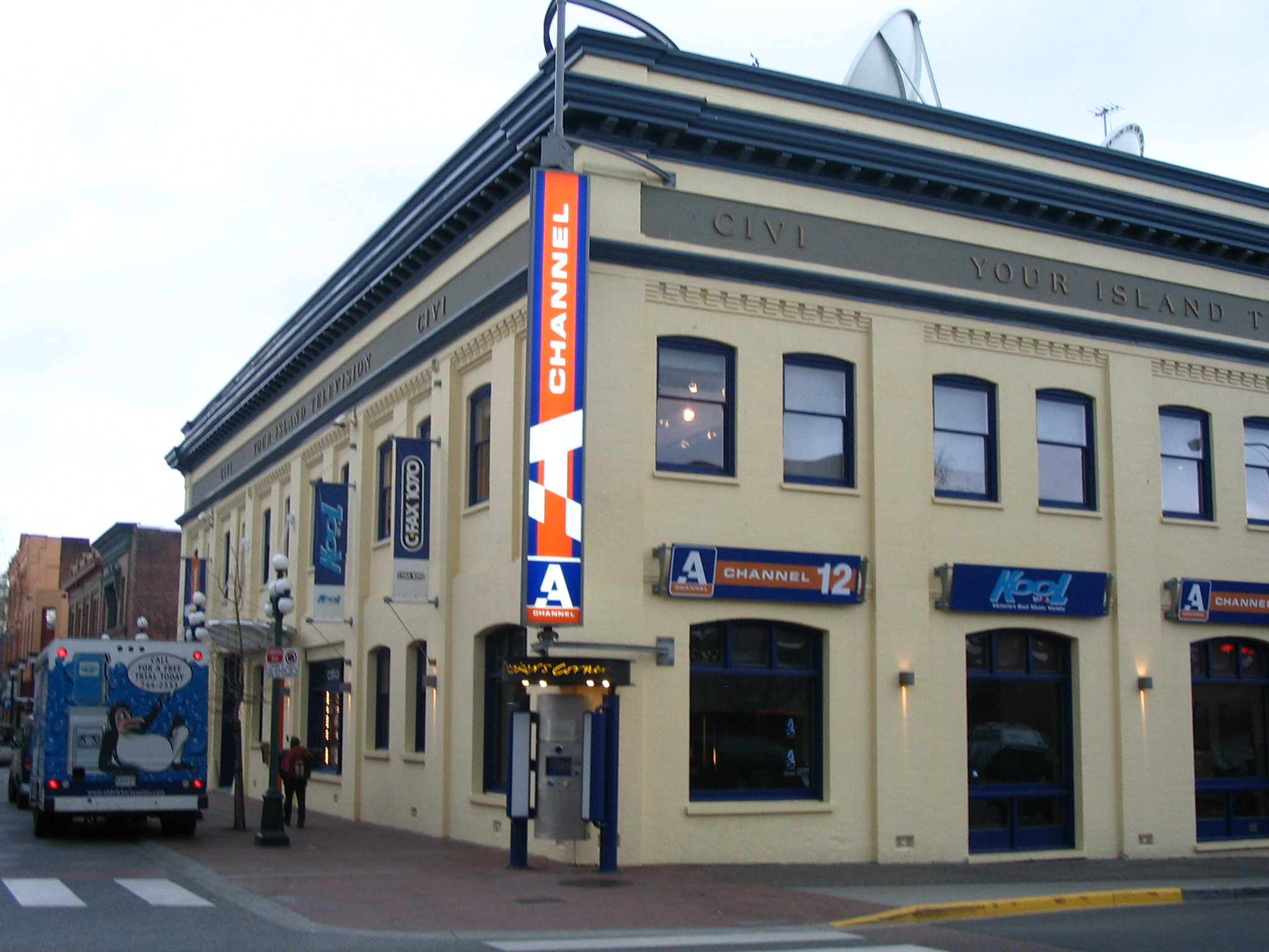 The CIVI Studio in Victoria, British Columbia